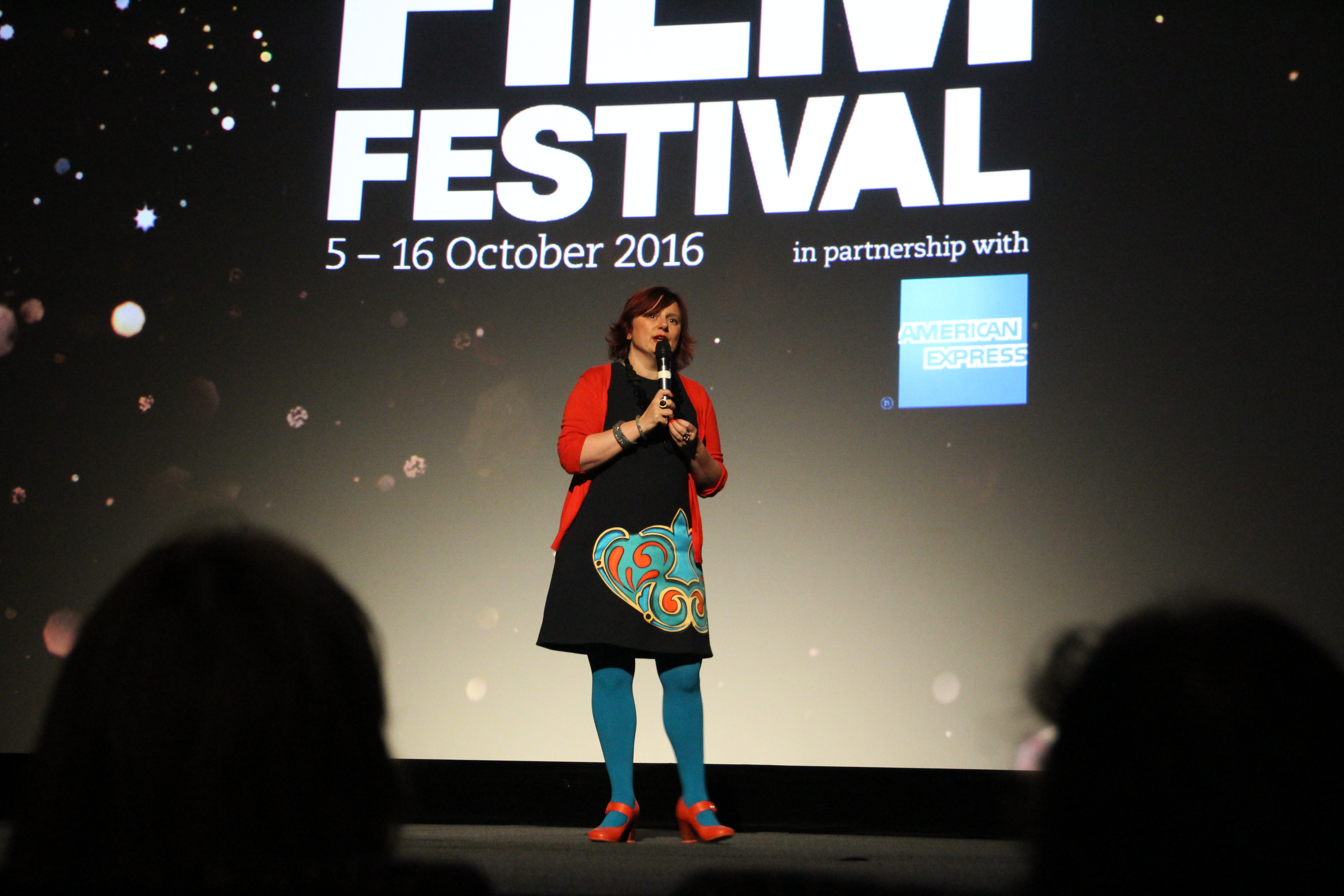 Clare Stewart introduces Manchester by the Sea